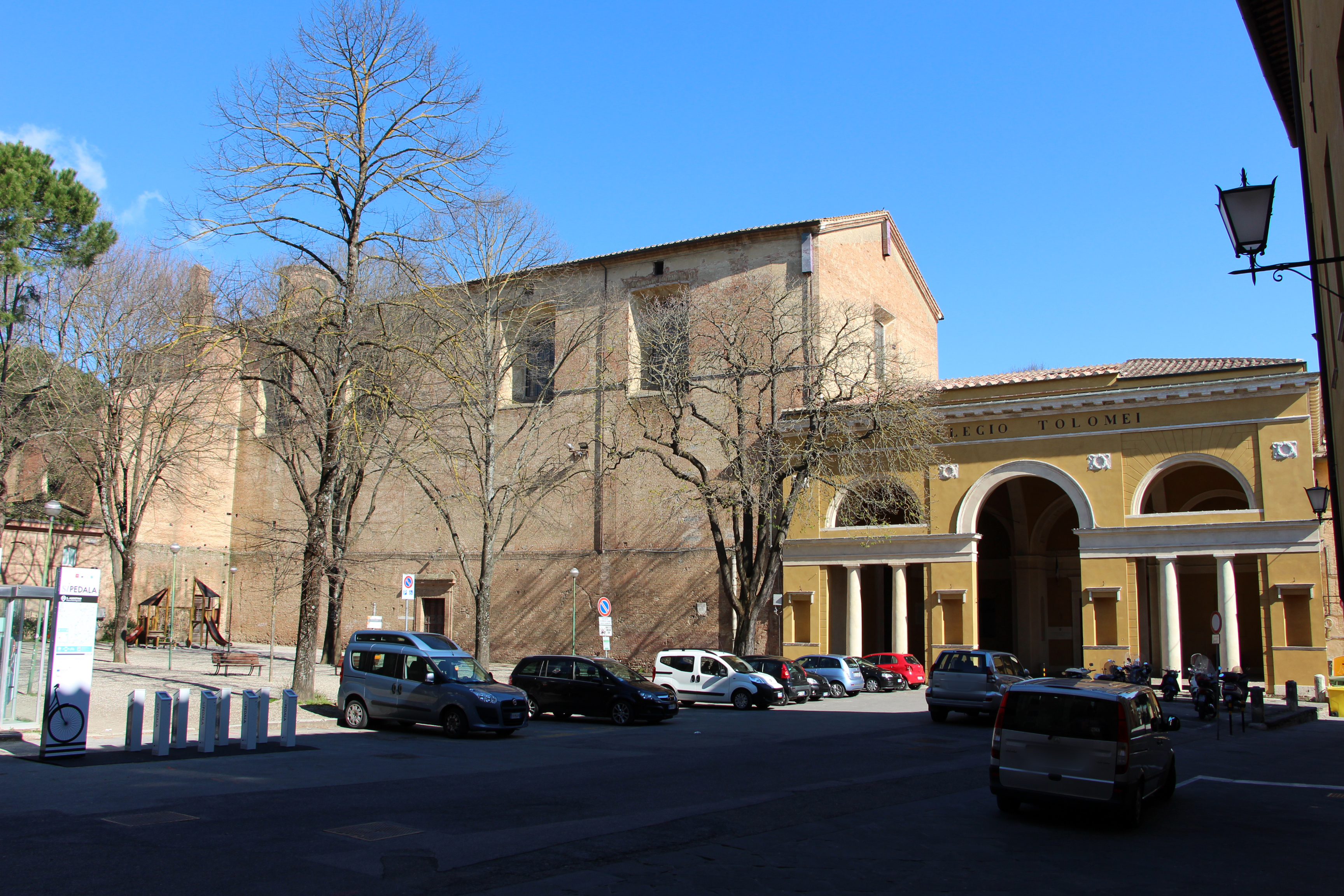 Churches in Siena